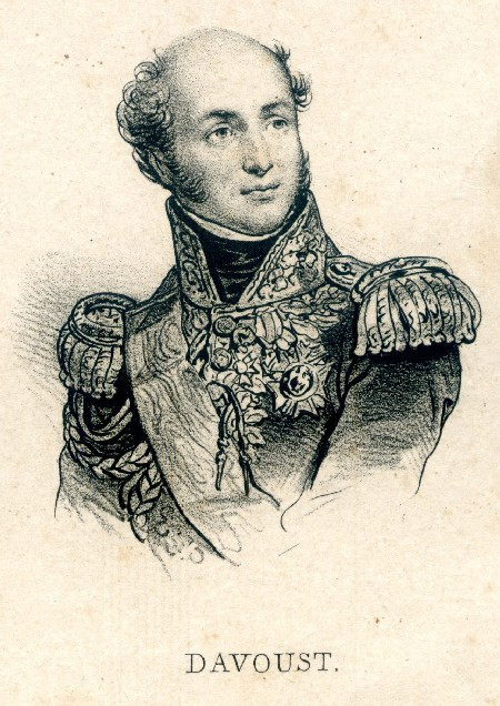 Marshal Louis Nicolas Davout by Victor Adam